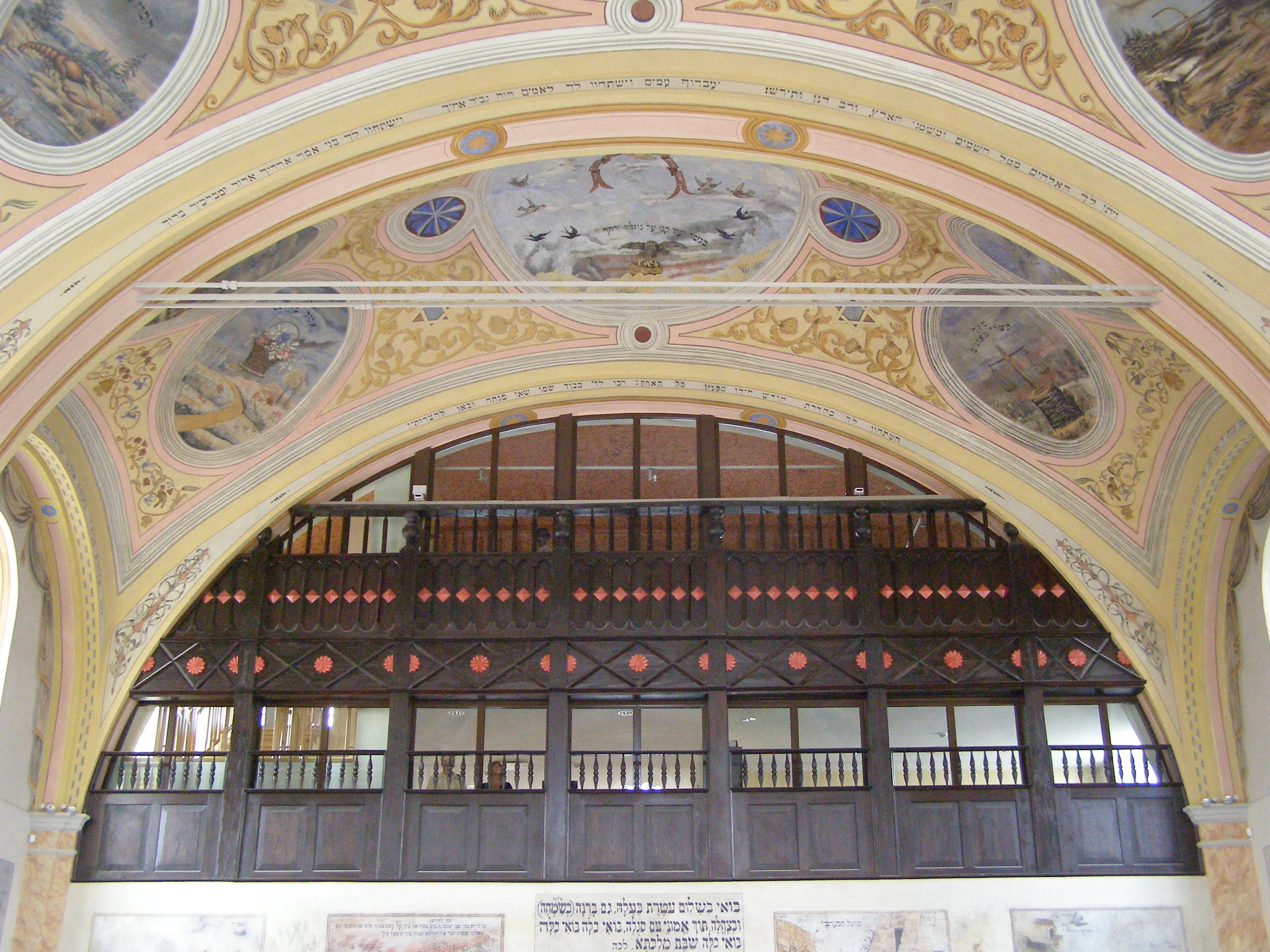 Dąbrowa Tarnowska - synagogue - women's gallery